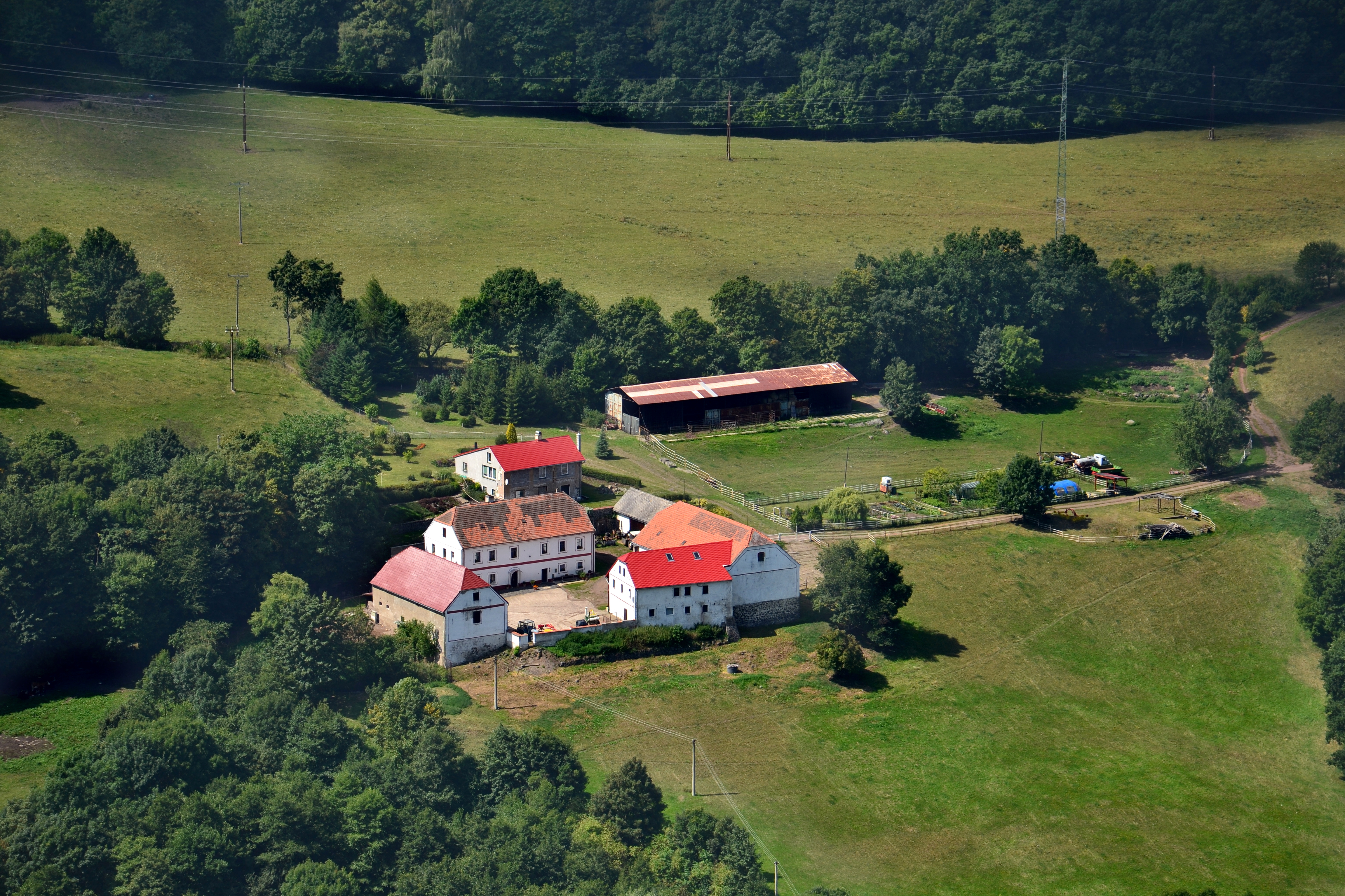 View from Úhošť